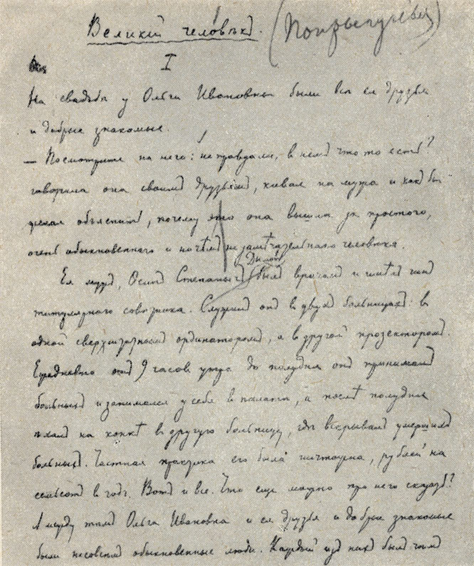 Autograph Chekhov's story "The Grasshopper", 1892